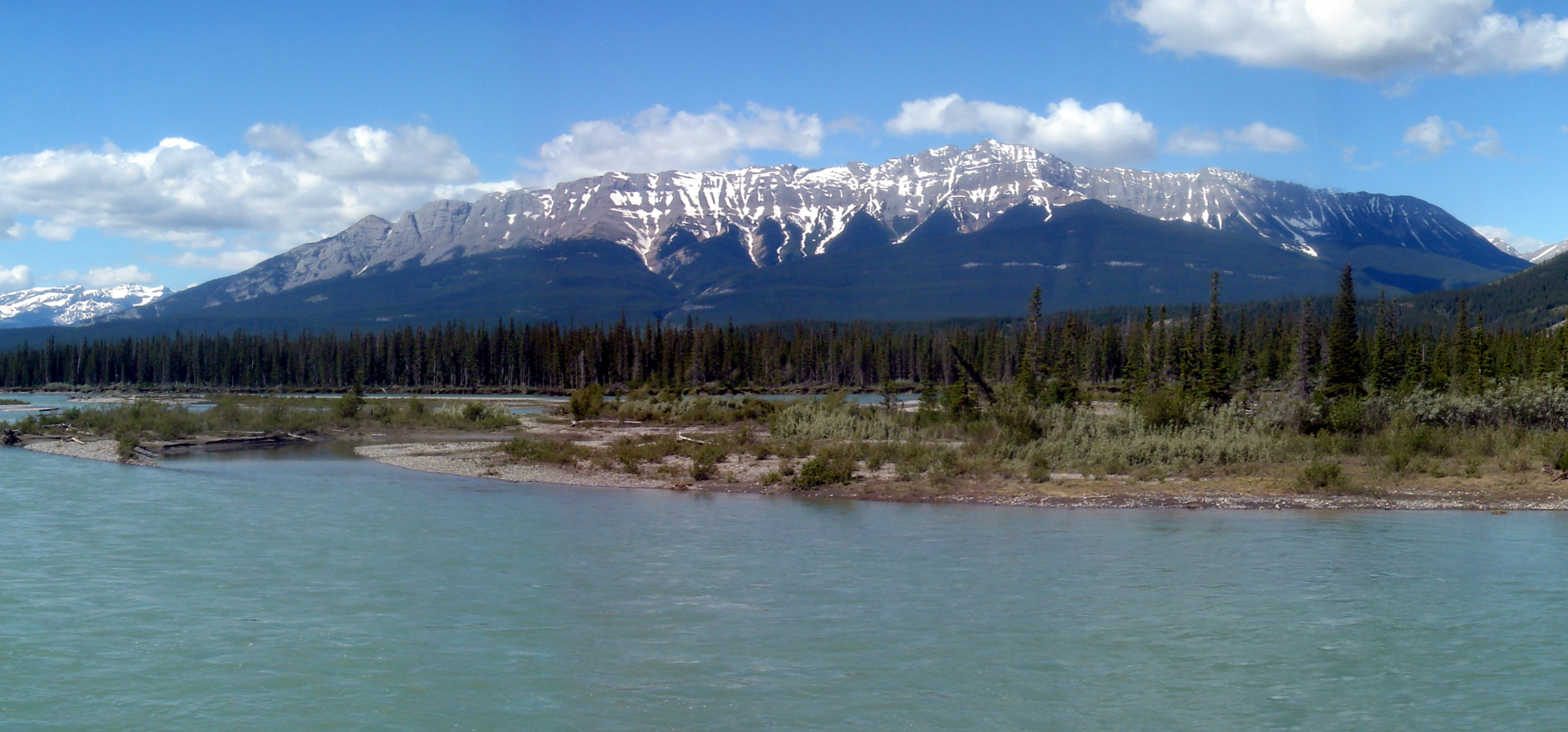 De Smelt Range in the Canadian Rockies, seen from the Icefield Parkway